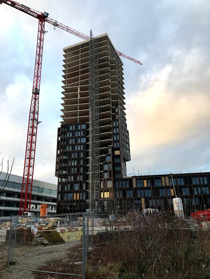 Picture of the Giessenturm in Dübendord, currently under construction.